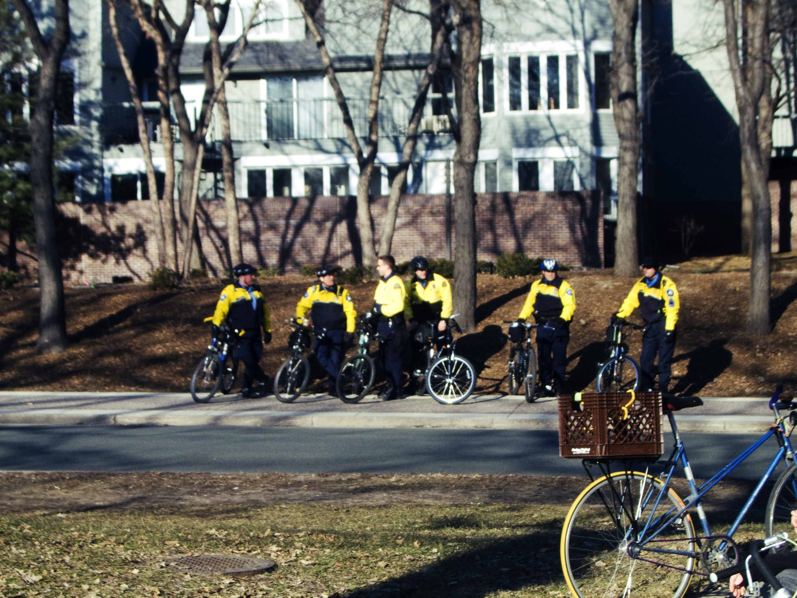 Minneapolis Police Department's bike patrol unit